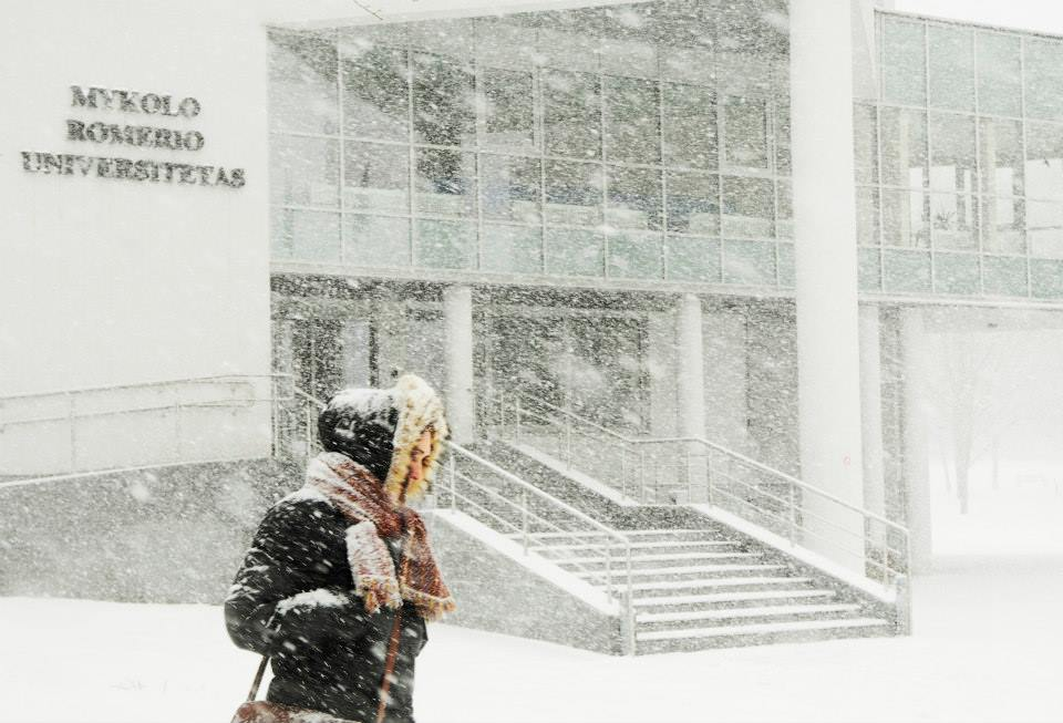 Wintertime at MRU